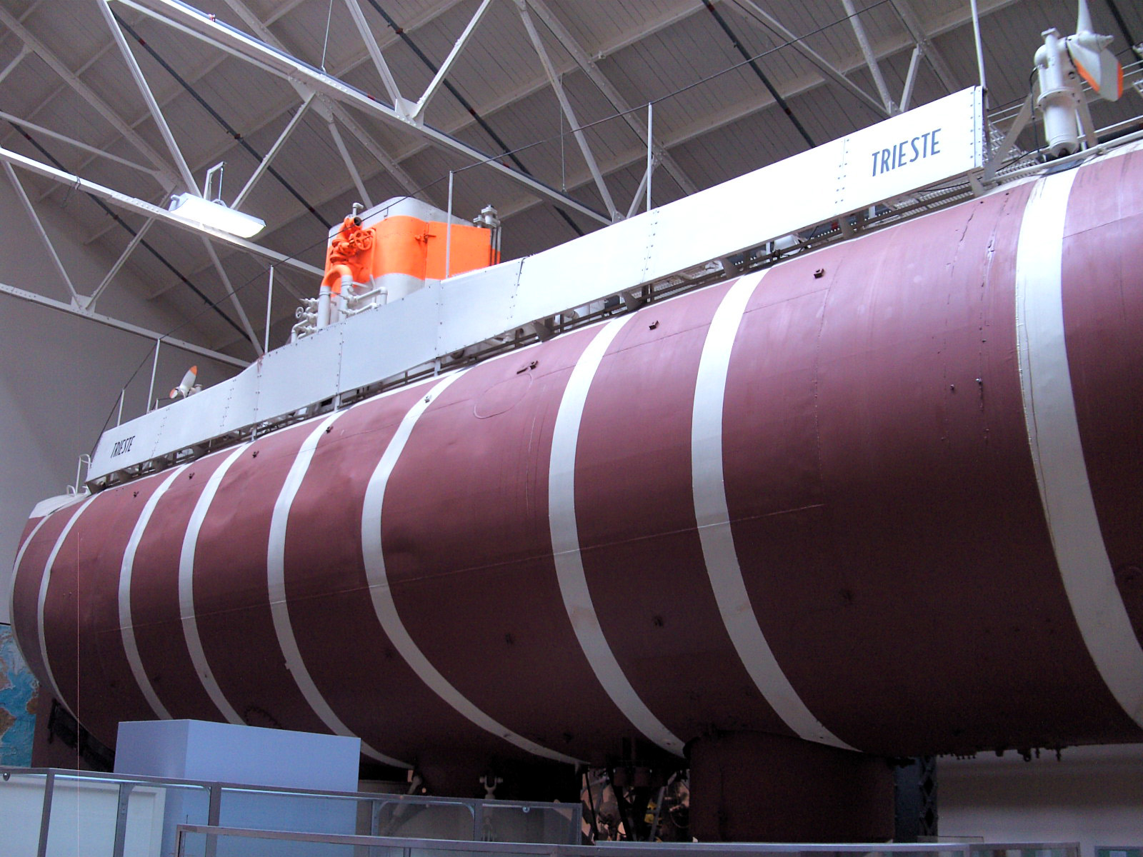 Trieste at United States Navy Museum, Washington D.C., USA